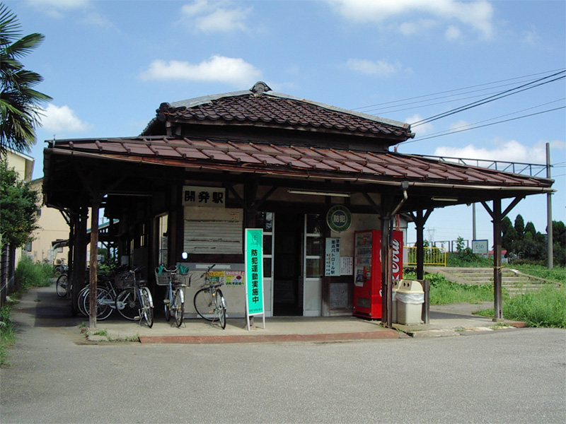 Kaihotsu Station on the Toyama Chiho Railway Kamidaki Line in the city of Toyama, Toyama Prefecture, Japan